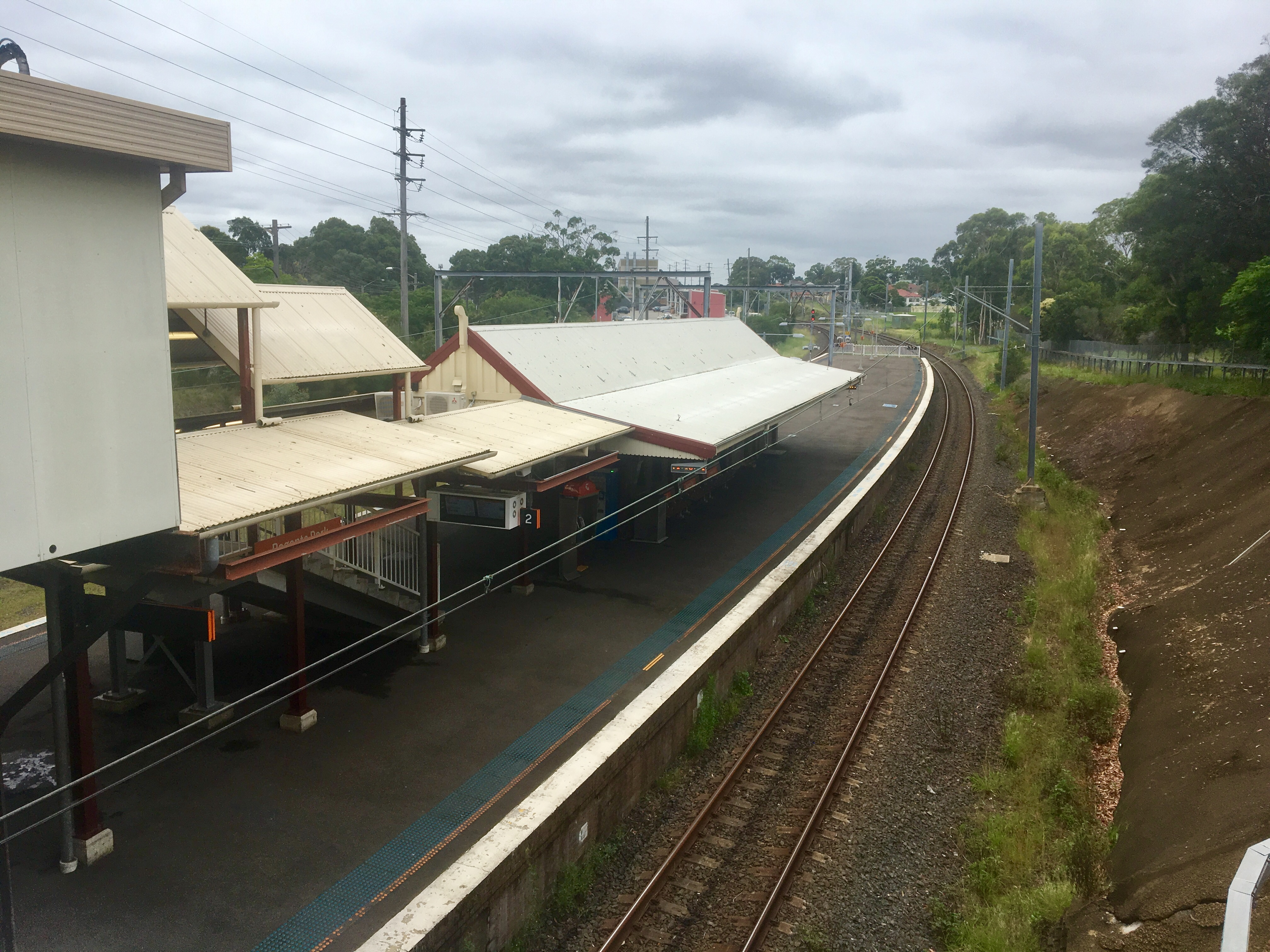 Depicted place: Regents Park railway station